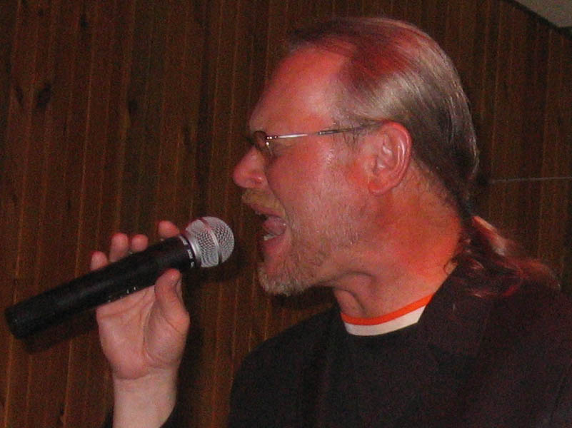 Vašo Patejdl in Astoria, New York, April 2007